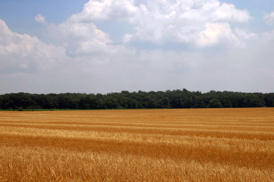 Wheat fields are beautiful just after they've been harvested. This is one of two photos taken just outside of Centreville, Maryland. 1 of 2.